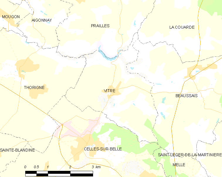 Map of French municipality Vitré